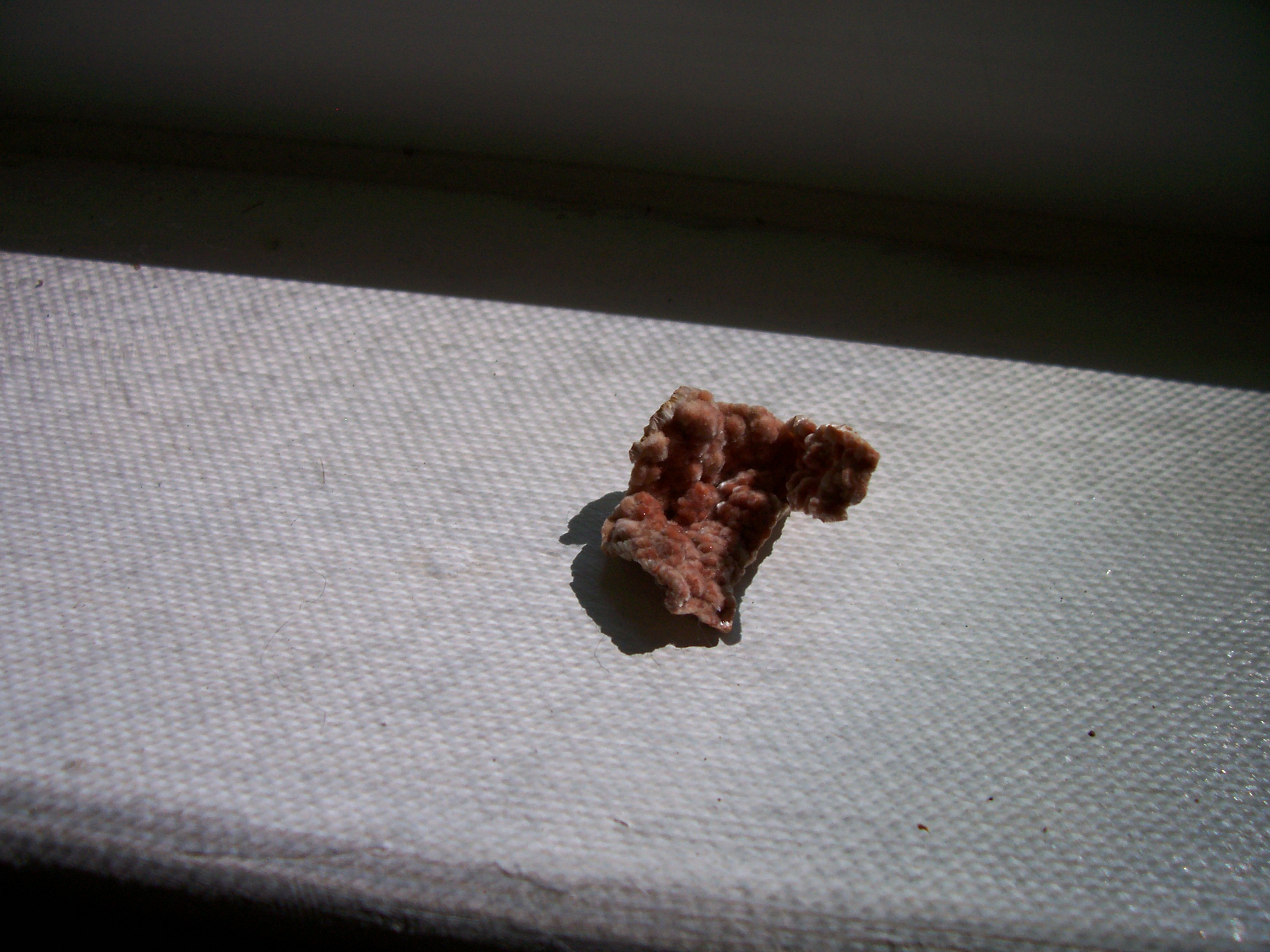 Fewrrierite-(Mg) Kamloops Lake British Columbia, Canada